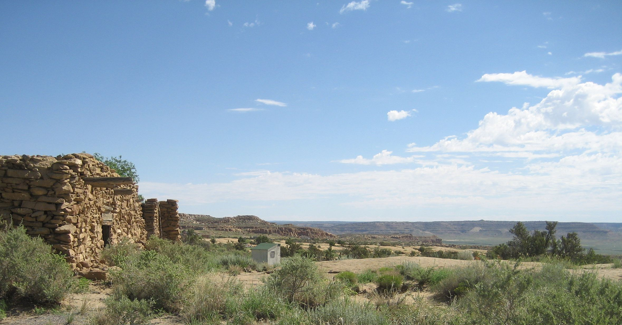 Stone house and landscape of the Hopi village of Oraibi, in northern Arizona. Credits I took this photo in August 2010.